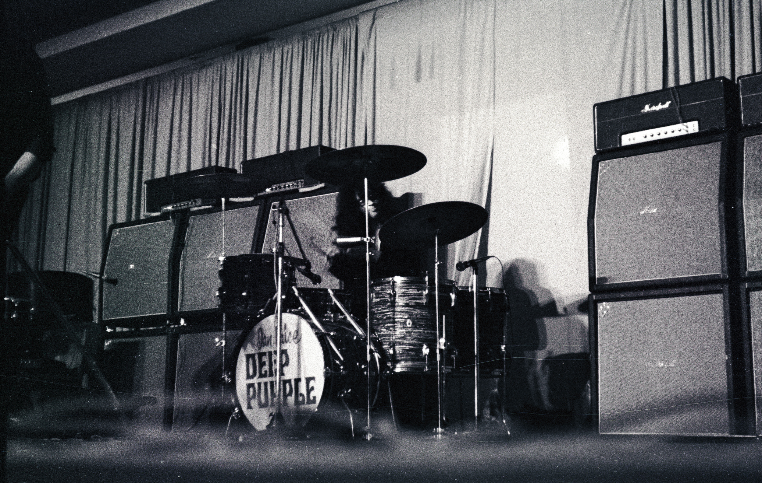 Deep Purple, December 1, 1970 Niedersachsenhalle, Hannover, Germany, The Touring Band 1970: Ian Gillan - Vocals, Ritchie Blackmore - Guitar, Jon Lord - Organ, Roger Glover - Bass Guitar, Ian Paice - Percussion